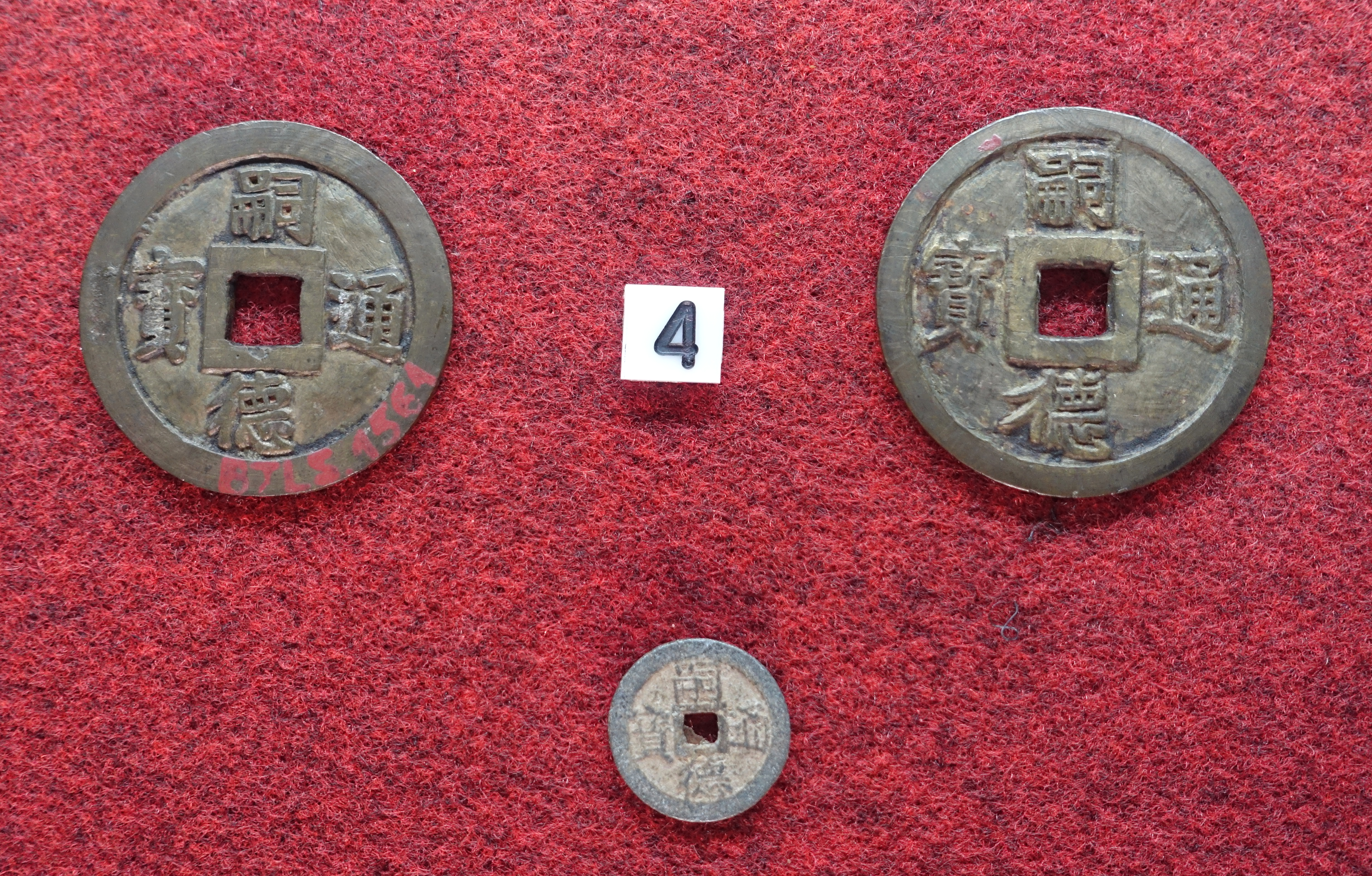 Exhibit in the Museum of Vietnamese History, Ho Chi Minh City, Vietnam. This work is old enough so that it is in the public domain.